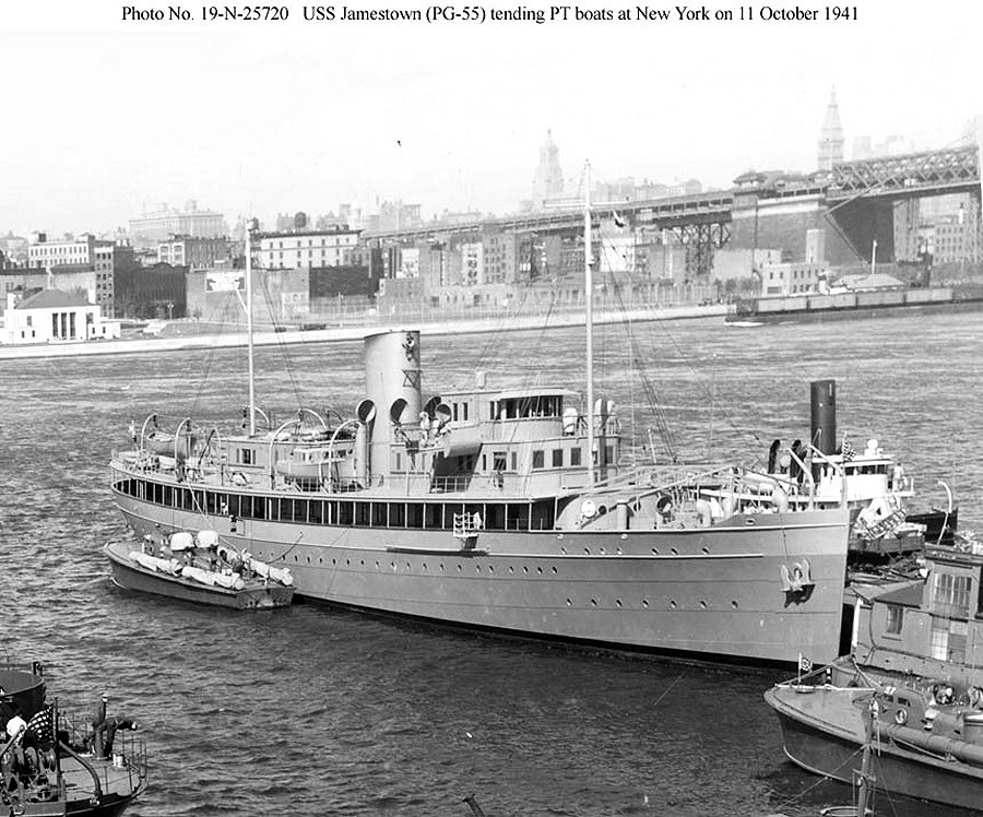 Tending PT boats at the New York Navy Yard on 11 October 1941 (PT-37 is in the lower right). Jamestown is unarmed and has few visibile military fittings.